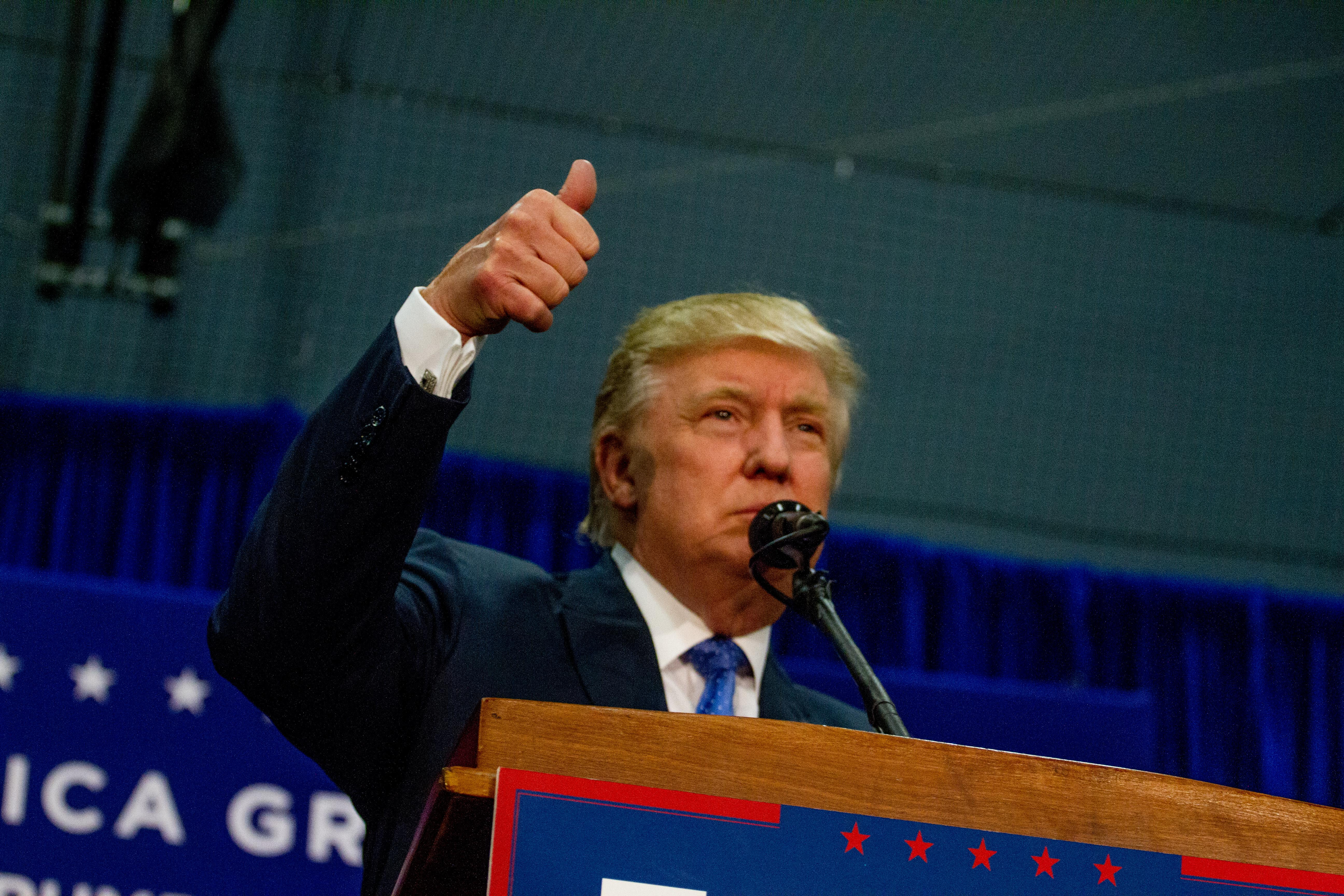 GOP Presidential nominee Donald Trump holds a rally in Newtown, Bucks County, PA, Friday, October 21, 2016. Voter turnout in the Philadelphia suburbs will be crucial for both campaigns.